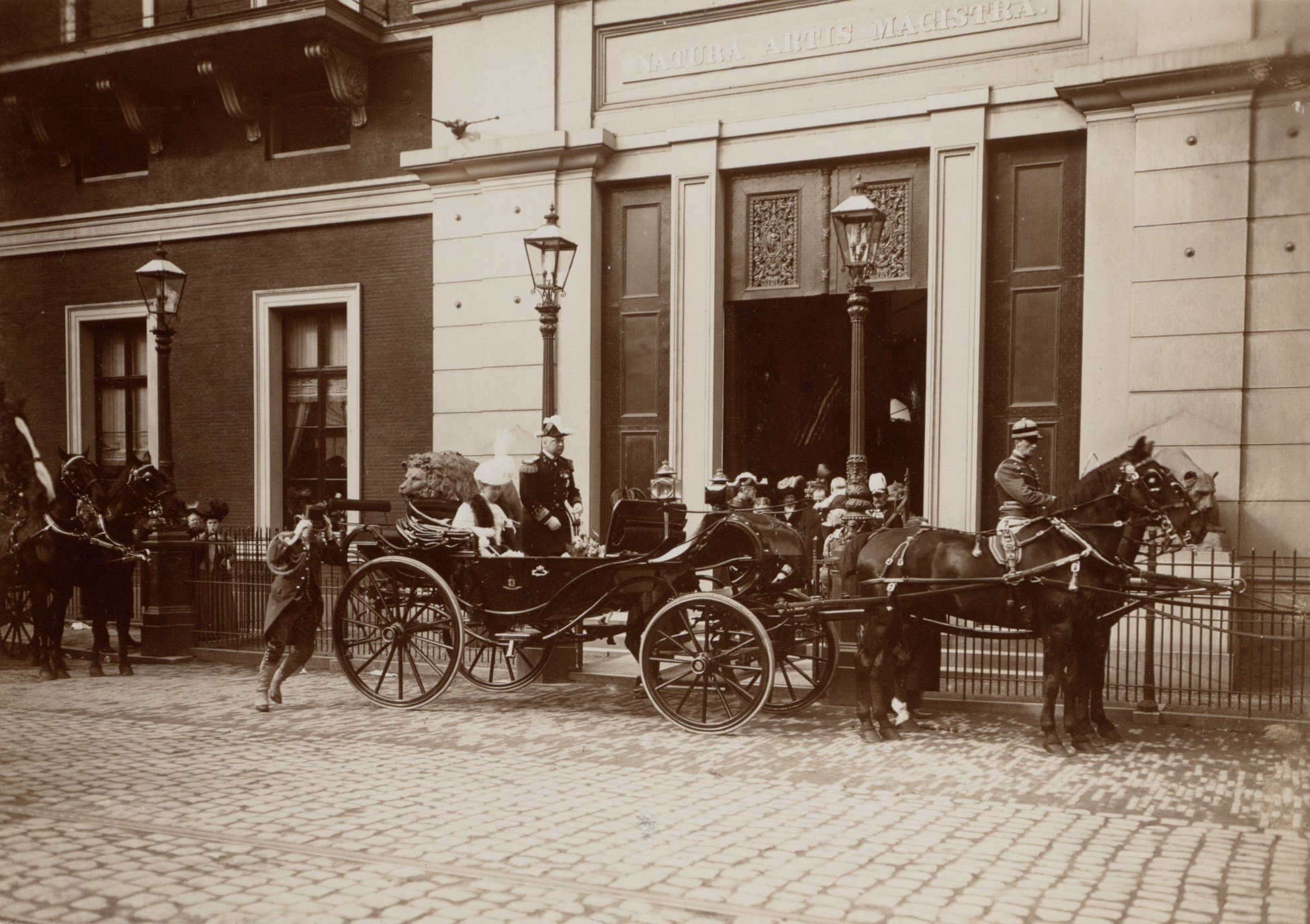 Queen Wilhelmina of the Netherlands and her husband prins Hendrik visit the Amsterdam zoo 'Artis'.